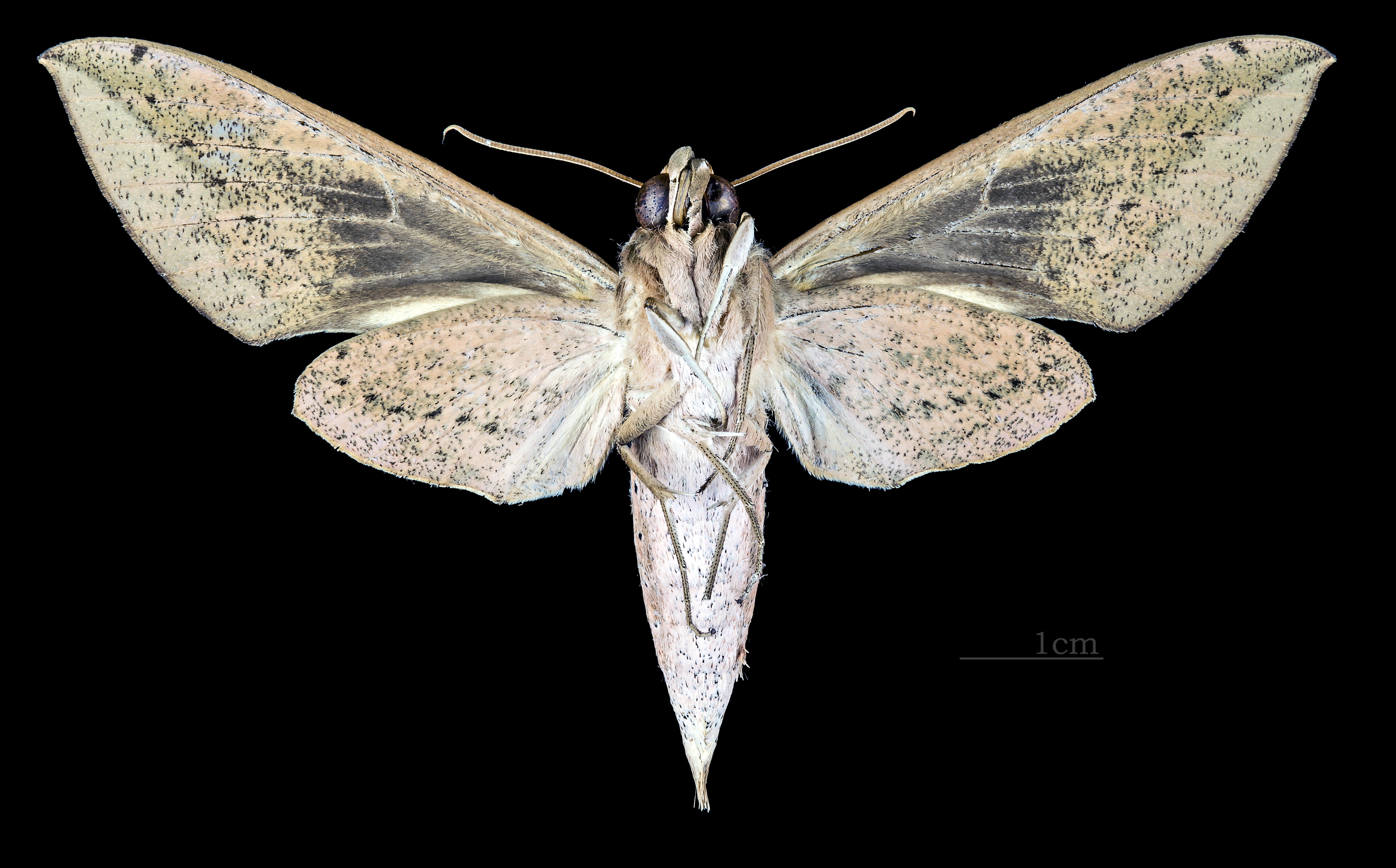 Theretra queenslandi - △ Ventral side Collection of the Mathematician Laurent Schwartz